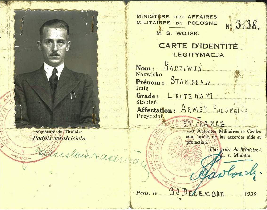 Polish Army in France military ID issued in the fall of 1939